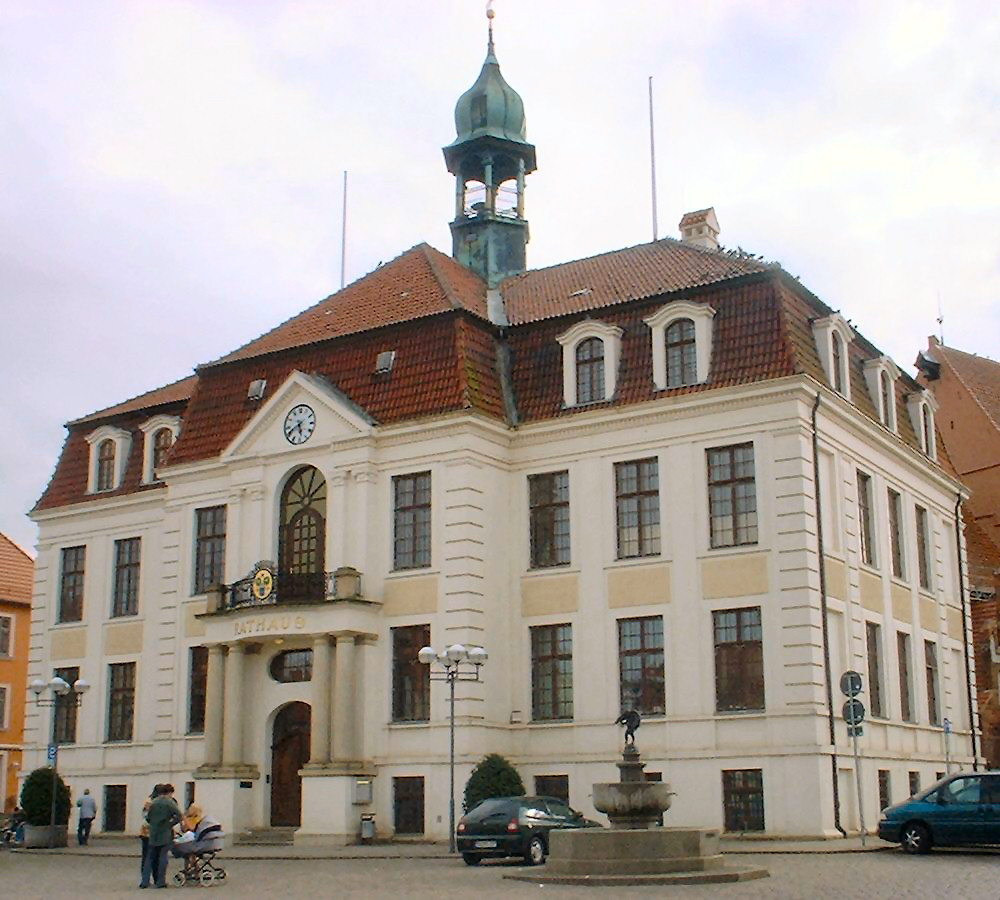 Town Hall at the market place in Teterow in Mecklenburg-Western Pomerania, Germany